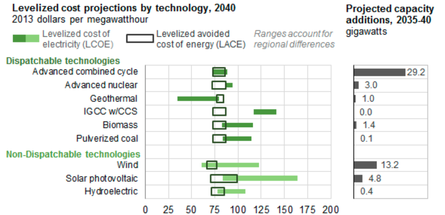 Costs shown in the illustration demonstrate the long-term comparison of various types of utility-scale systems. Prices include federal tax incentives for renewable energy as applicable in 2020 under current law. Capacity additions demonstrate electric power sector additions only, and as such include planned capacity already under construction. Data source?